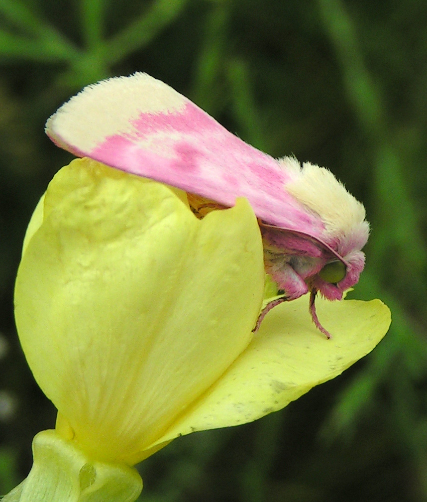 Primrose Flower Moth Schinia florida, Wheatley, Ontario, Canada.